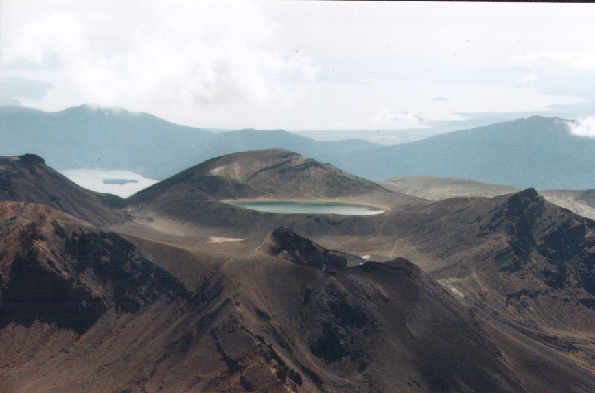 Mount Tongariro, New Zealand.